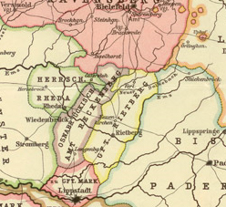 Amt Reckenberg, territory in 1797, Extract of the map depicted on page named under source